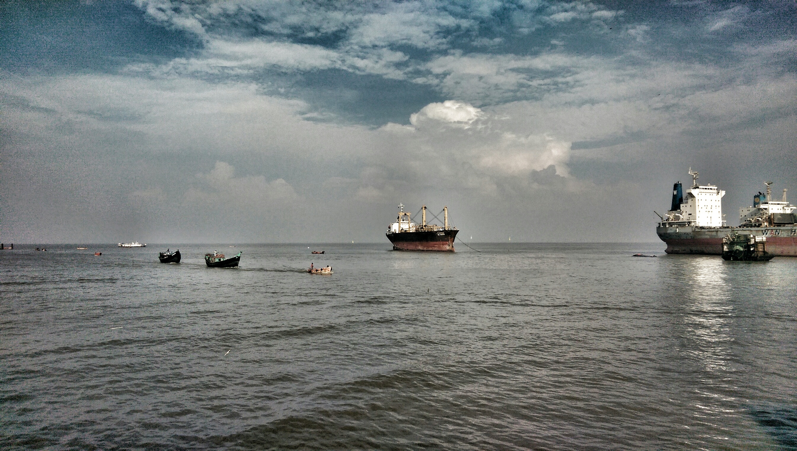 A Beautiful Scene of Bay of Bengal from Sandwip,Chittagong Sea Coast.